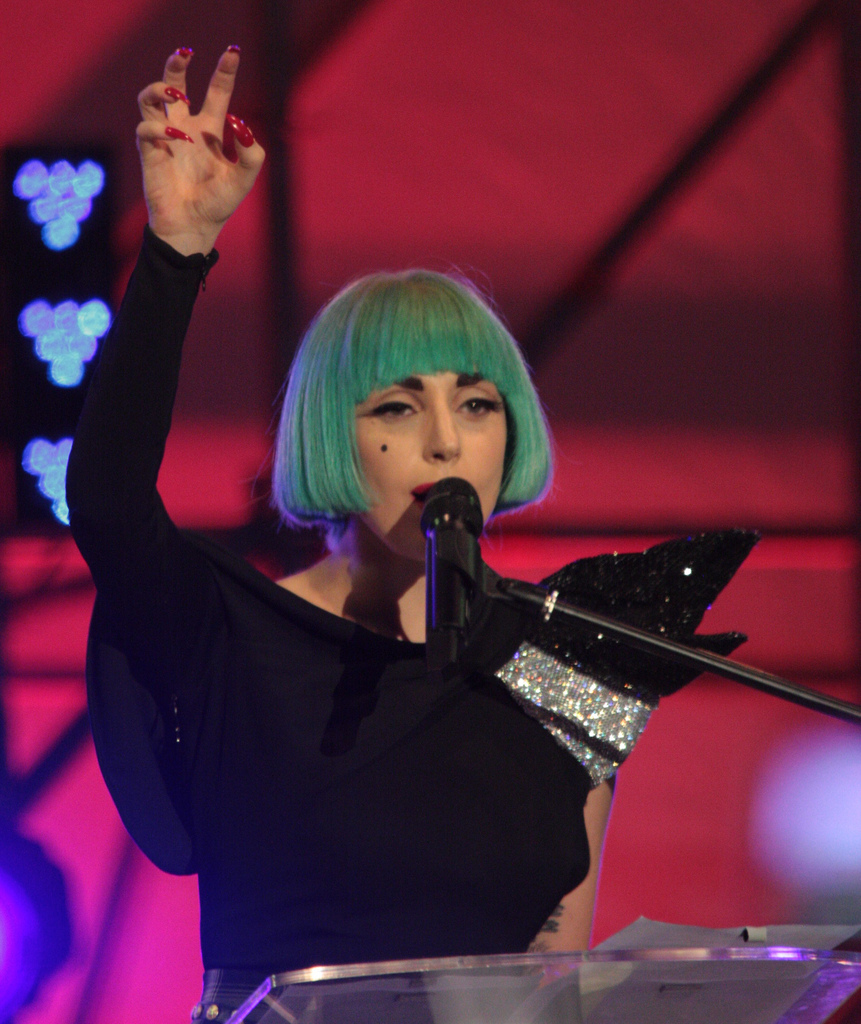 Lady Gaga giving a speech at the 2011 EuroPride event in Rome, Italy.